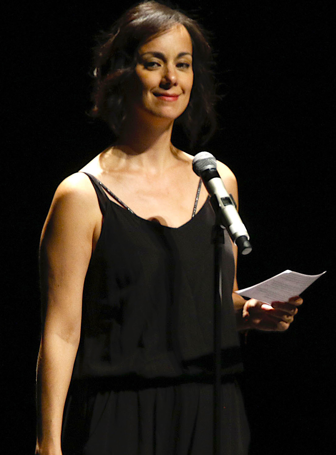 Martes 12 de marzo de 2019 En el Teatro de la Ciudad Esperanza Iris, se realizó la ceremonia de entrega de los Premios de la Agrupación de Críticos y Periodistas de Teatro, encabezada por Gustavo Gerardo Suárez presidente, el premio que se otorga lleva como nombre Dama de la Victoria. Premio especial - Tina Galindo Fotografía: Milton Martínez / Secretaría de Cultura de la Ciudad de México